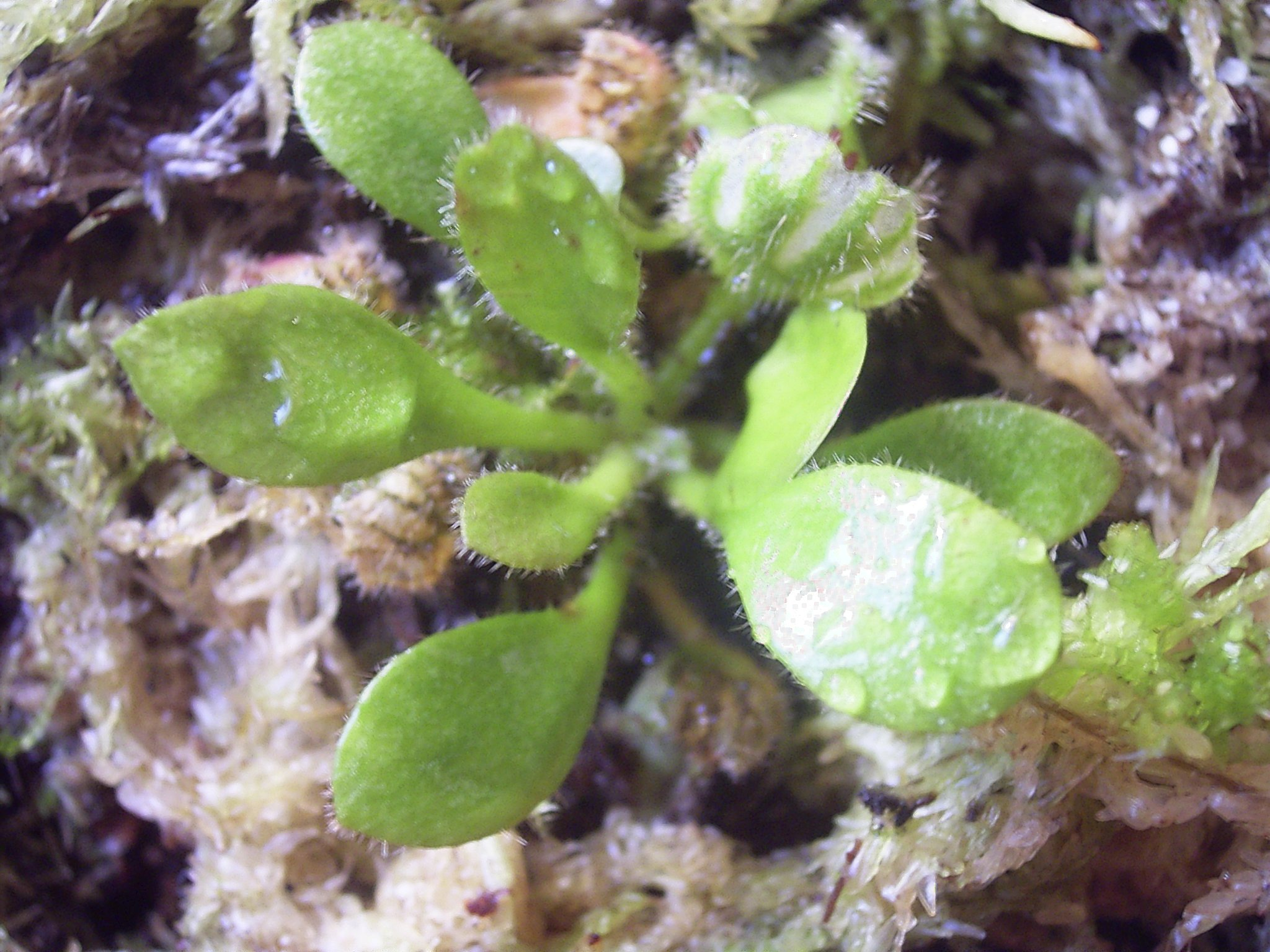 CephalotusFollicularis Author: Denis Barthel